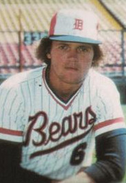 Professional baseball player Jerry Fry